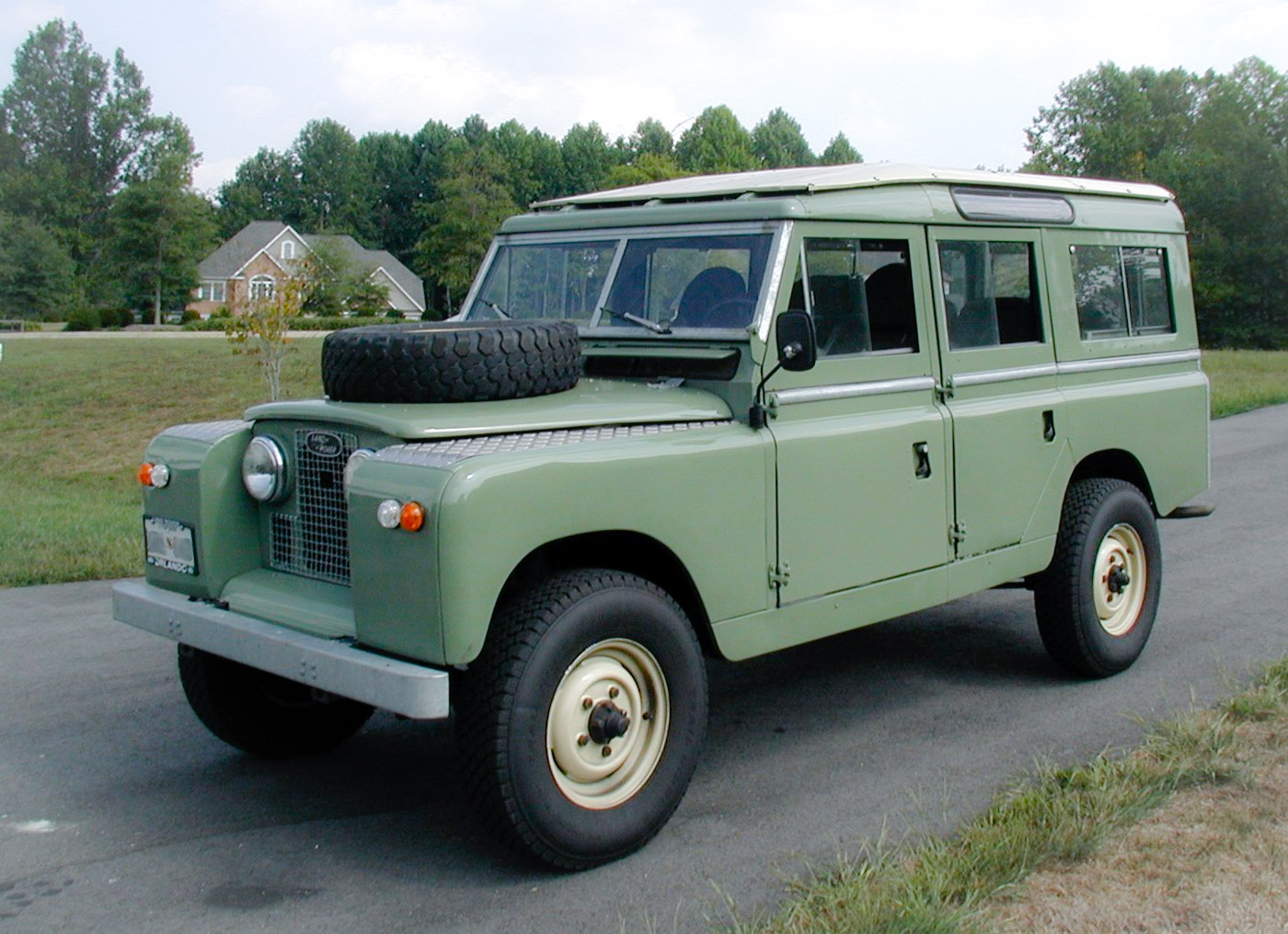 1966 Land Rover Series IIa 109 Station Wagon